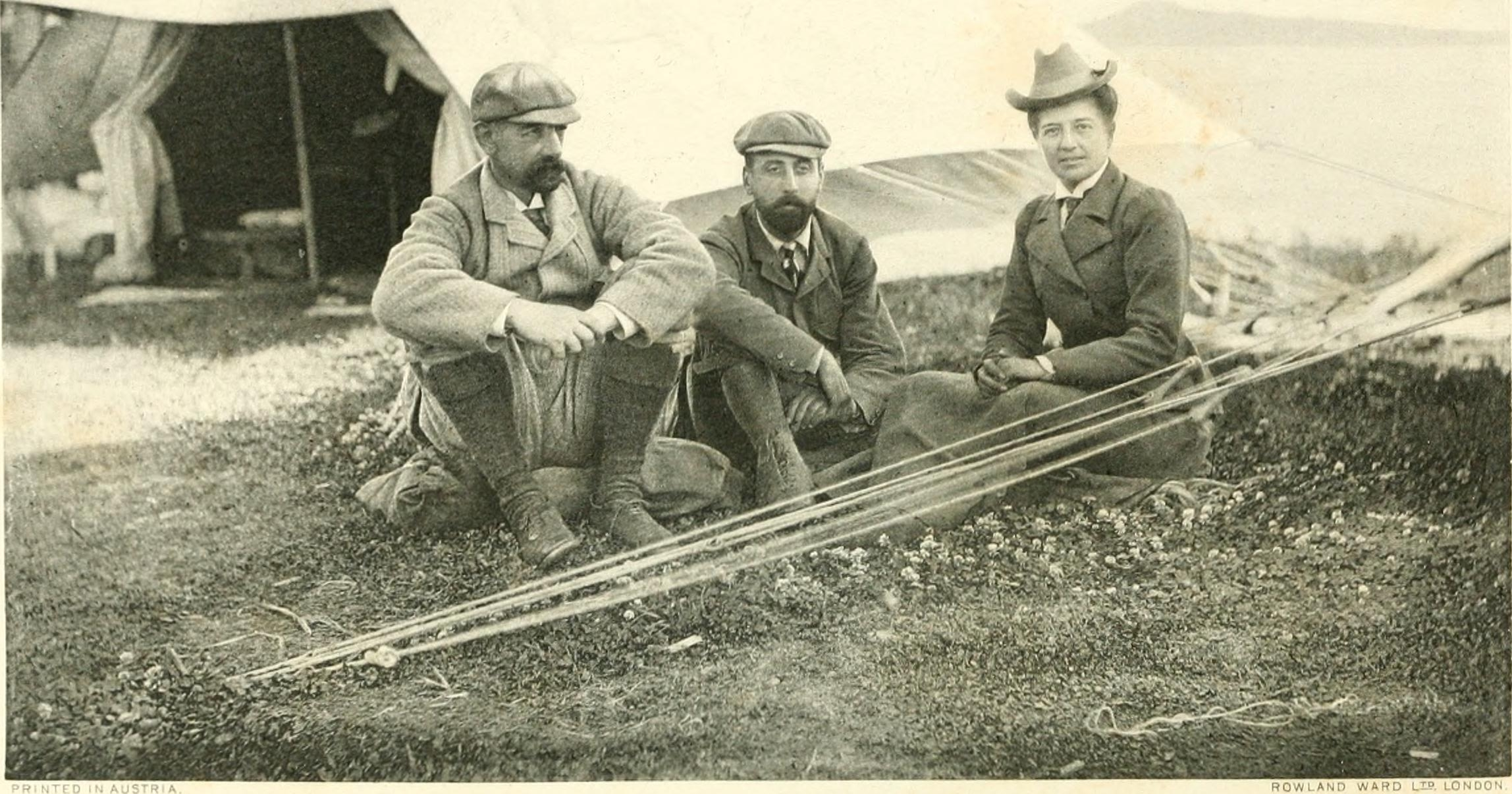 On the Sandpit at Petropavlovsk. The Author [Elim Pavlovich Demidov], his wife [Sofia Illarionovna Demidova], & Mr St. George Littledale.